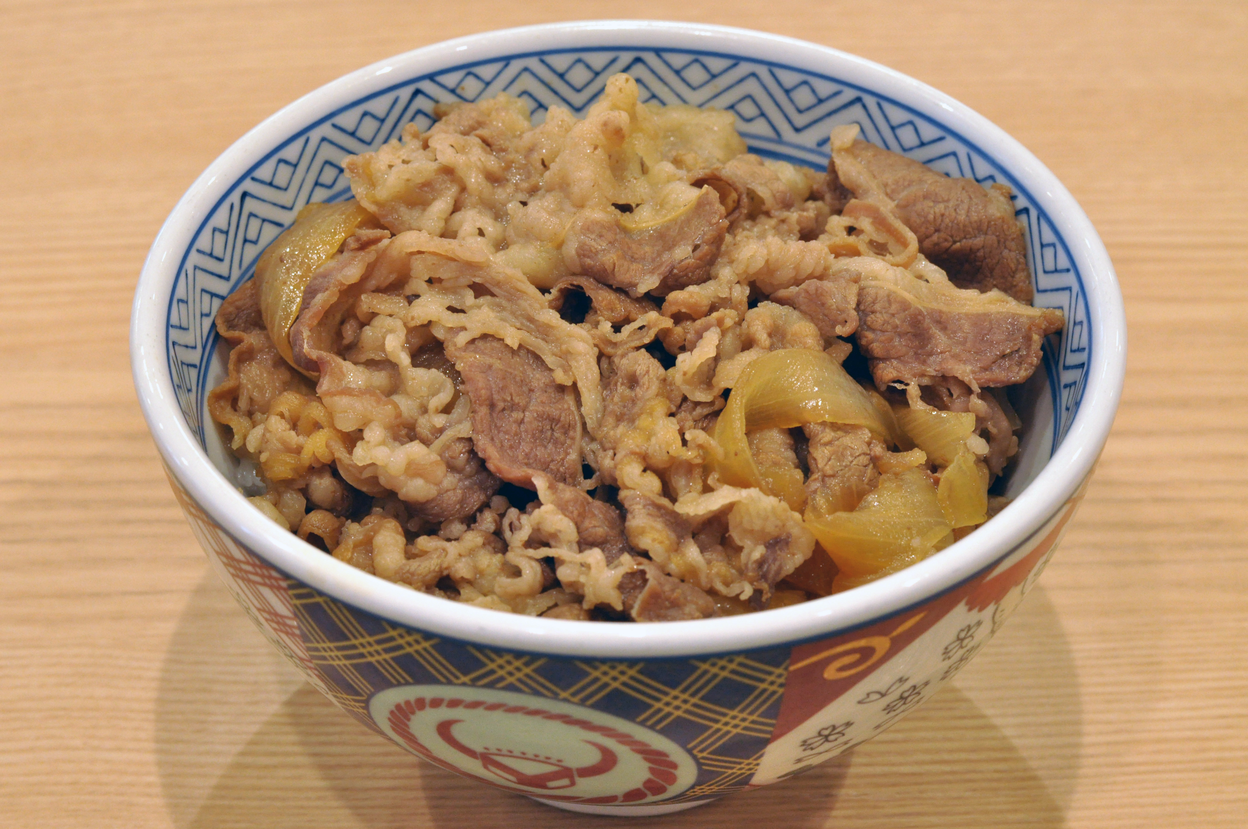 Yoshinoya Beef Bowl, regular size.